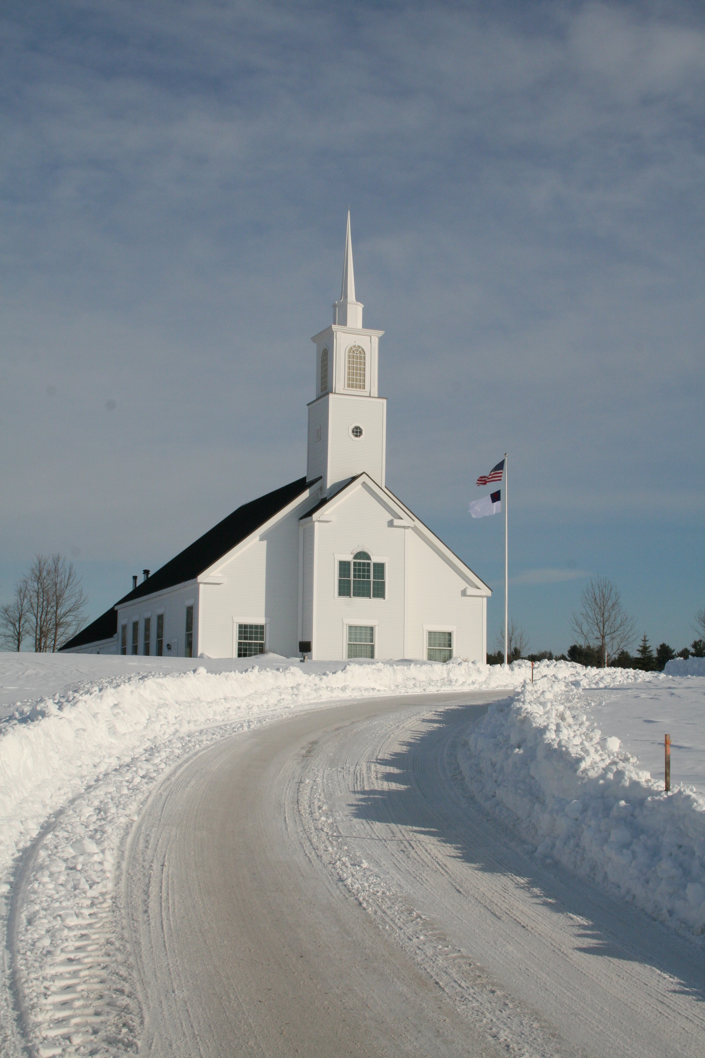 This is the New Haven United Reformed Church in New Haven, Vermont on US Route 7 (Ethan Allen Highway).